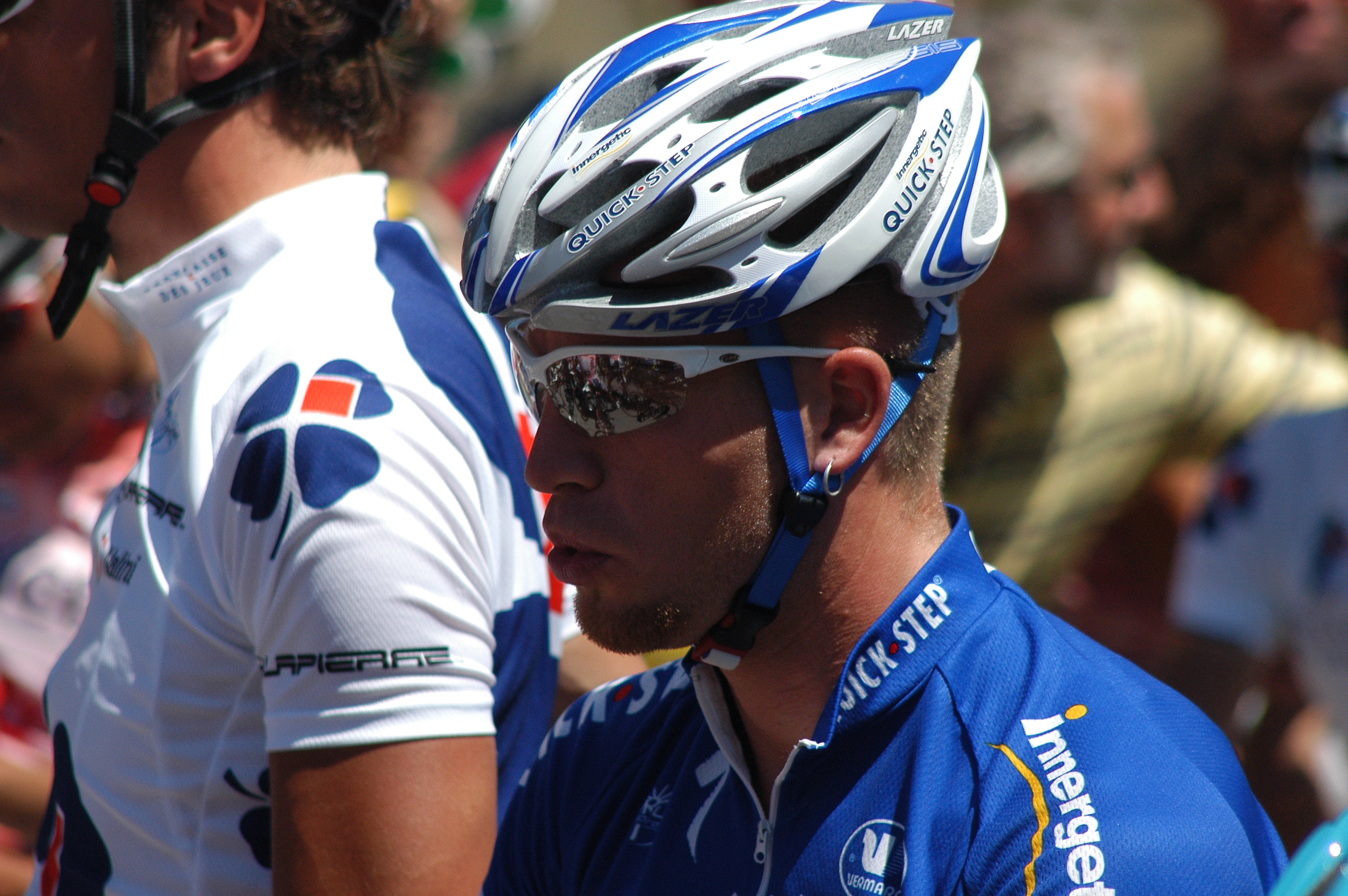 Sébastien Rosseler at the start of stage 8 in Le Grand Bornand, Tour de France 2007.